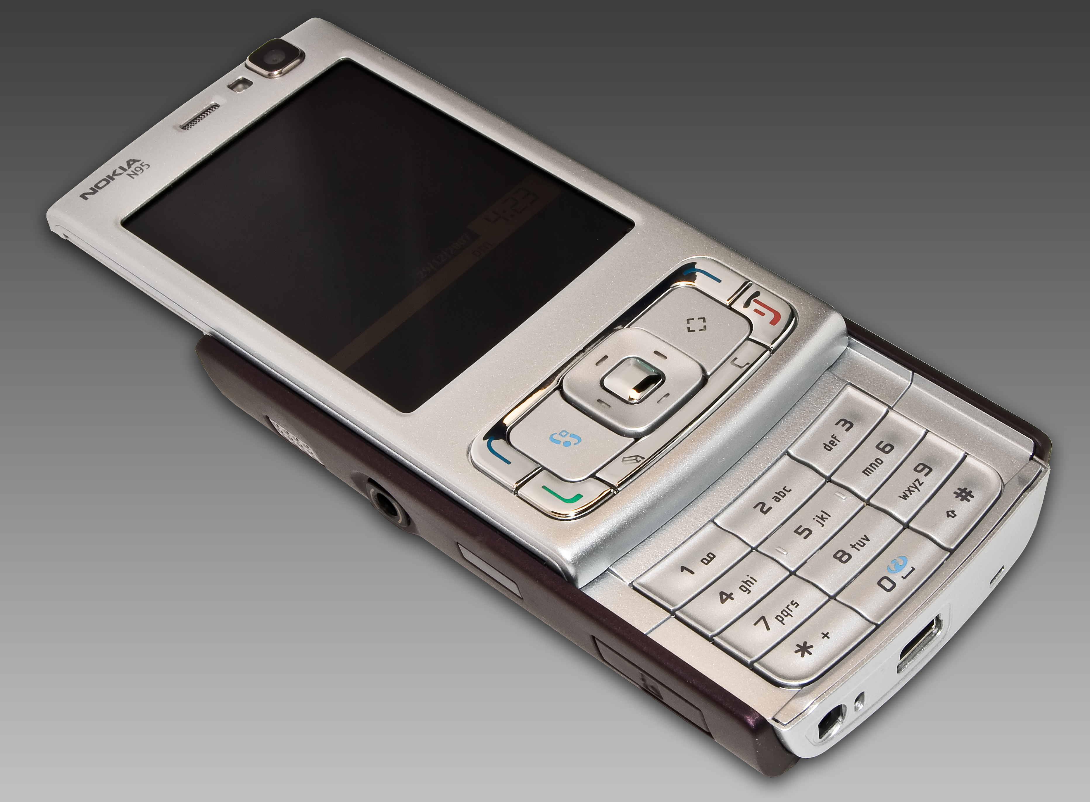 Image showing the Nokia N95 with slide opened